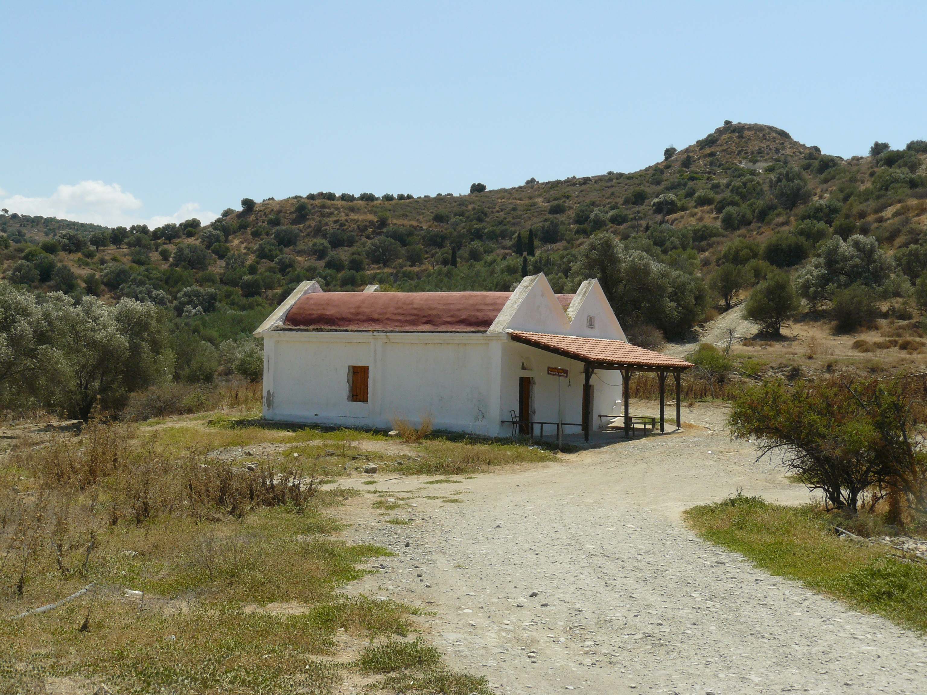 Church of the Agia Triada near the archaeological site of Agia Triada, Crete.